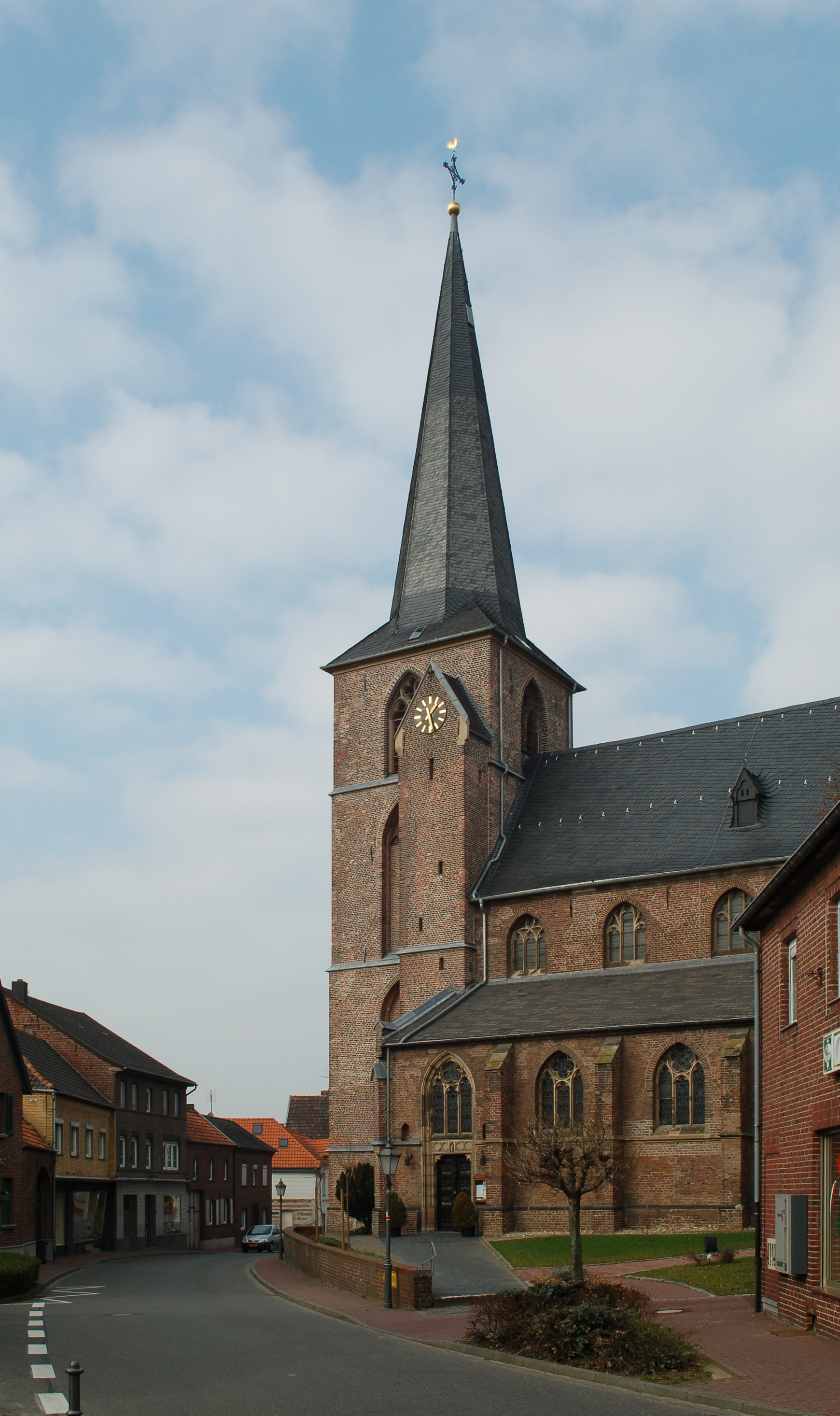 The roman-catholic church in Waldfeucht, Germany